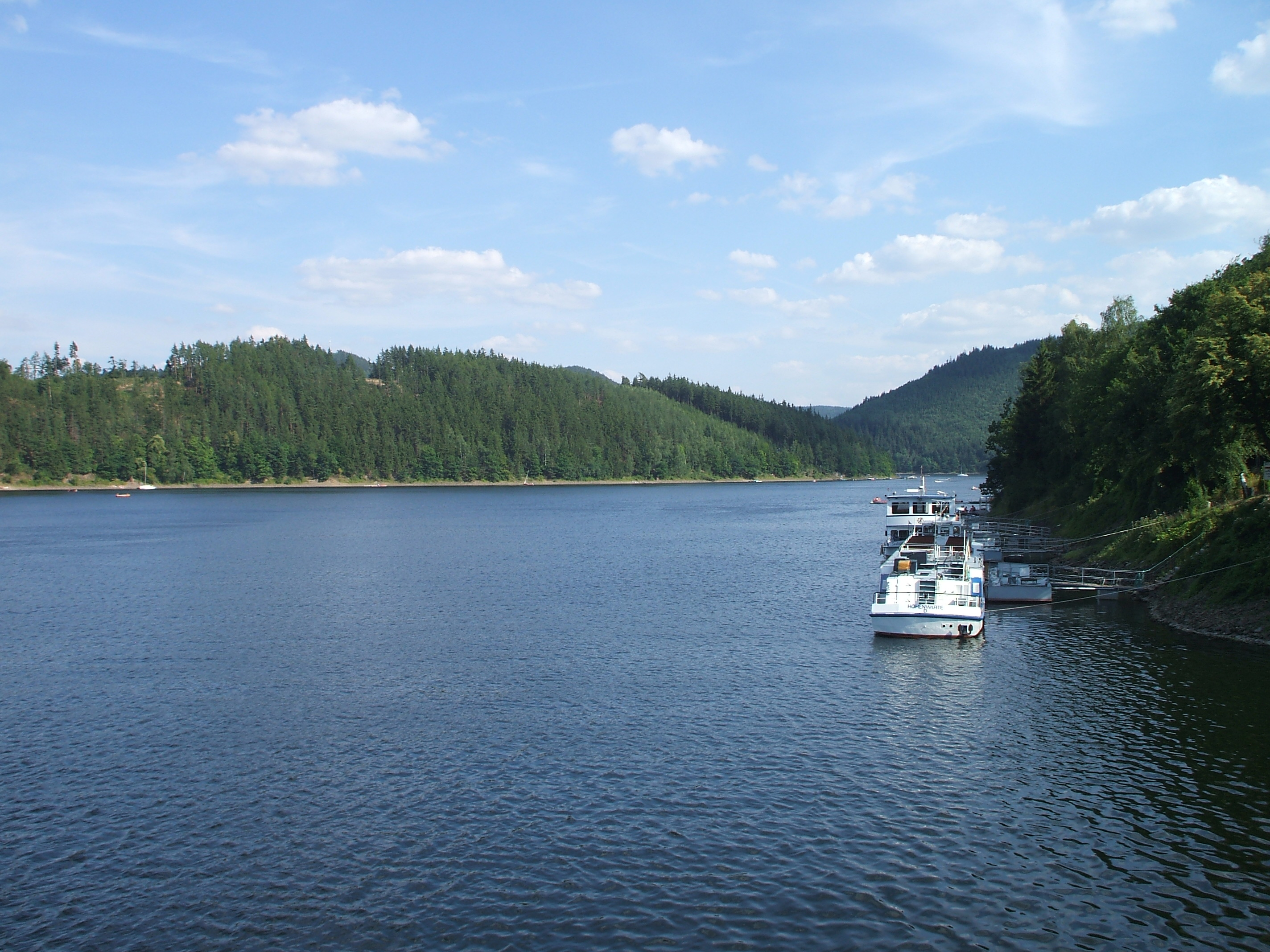 Hohenwarte reservoir, Germany